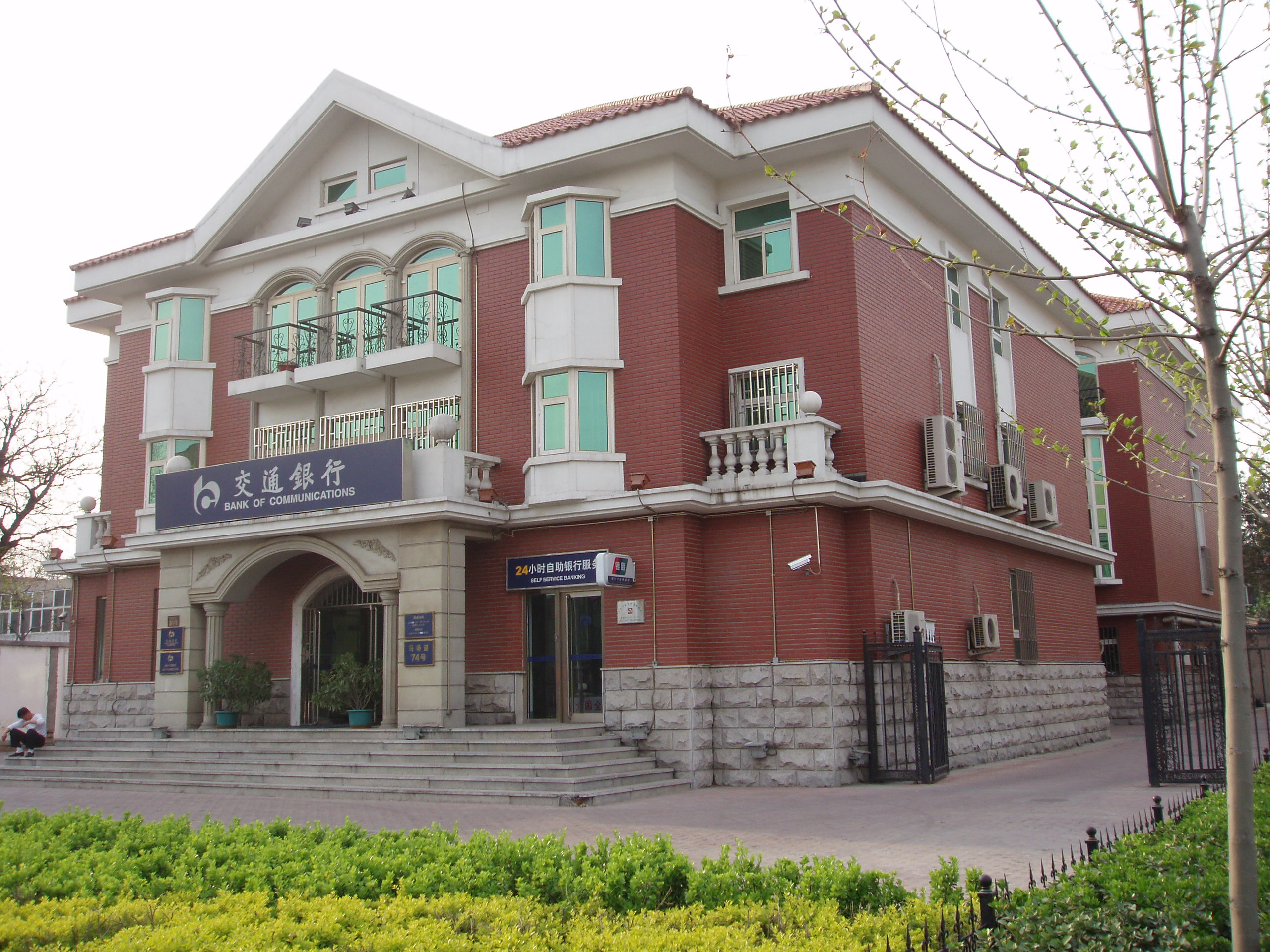 A bank in Tianjin, China